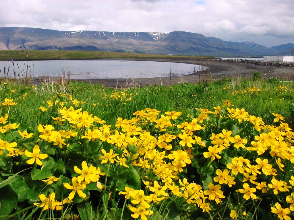 Mary-marshgolds next to the isthmus to the island of Geldinganes in Reykjavik, Iceland.